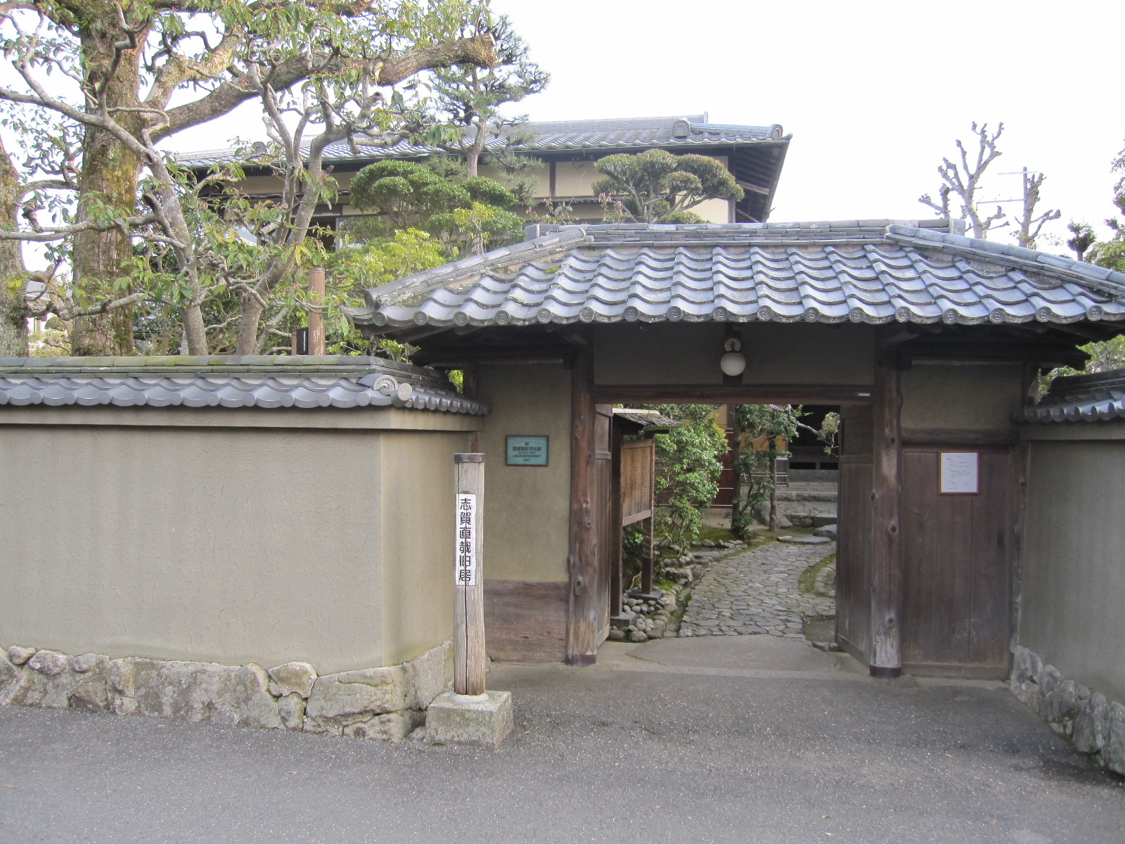 main gate of residence in Nara